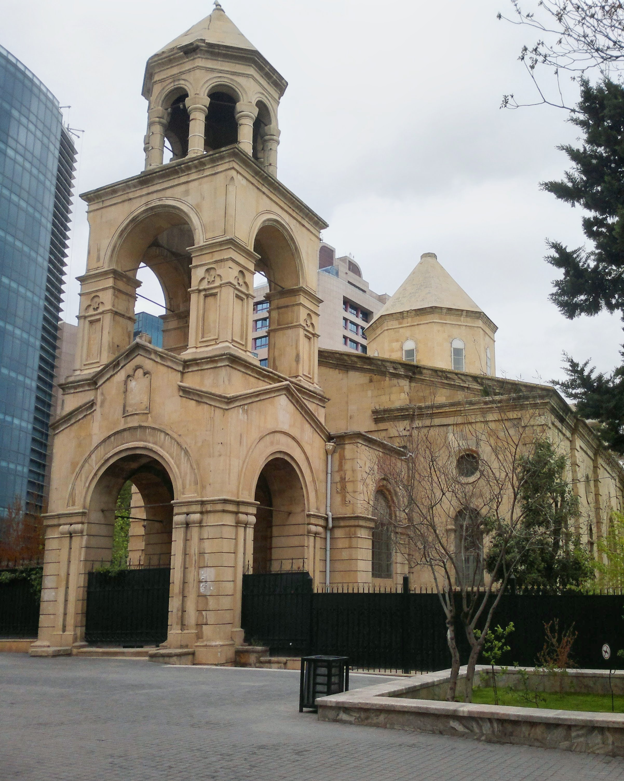 Armenian church in Baku. Azerbaijan. Built in 1863.